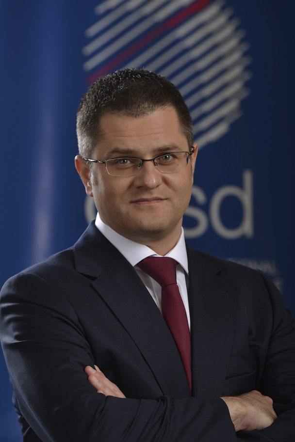 Vuk Jeremic